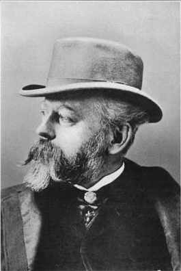 Canadian artist Henry Sandham, head-and-shoulders portrait, wearing top hat and facing left